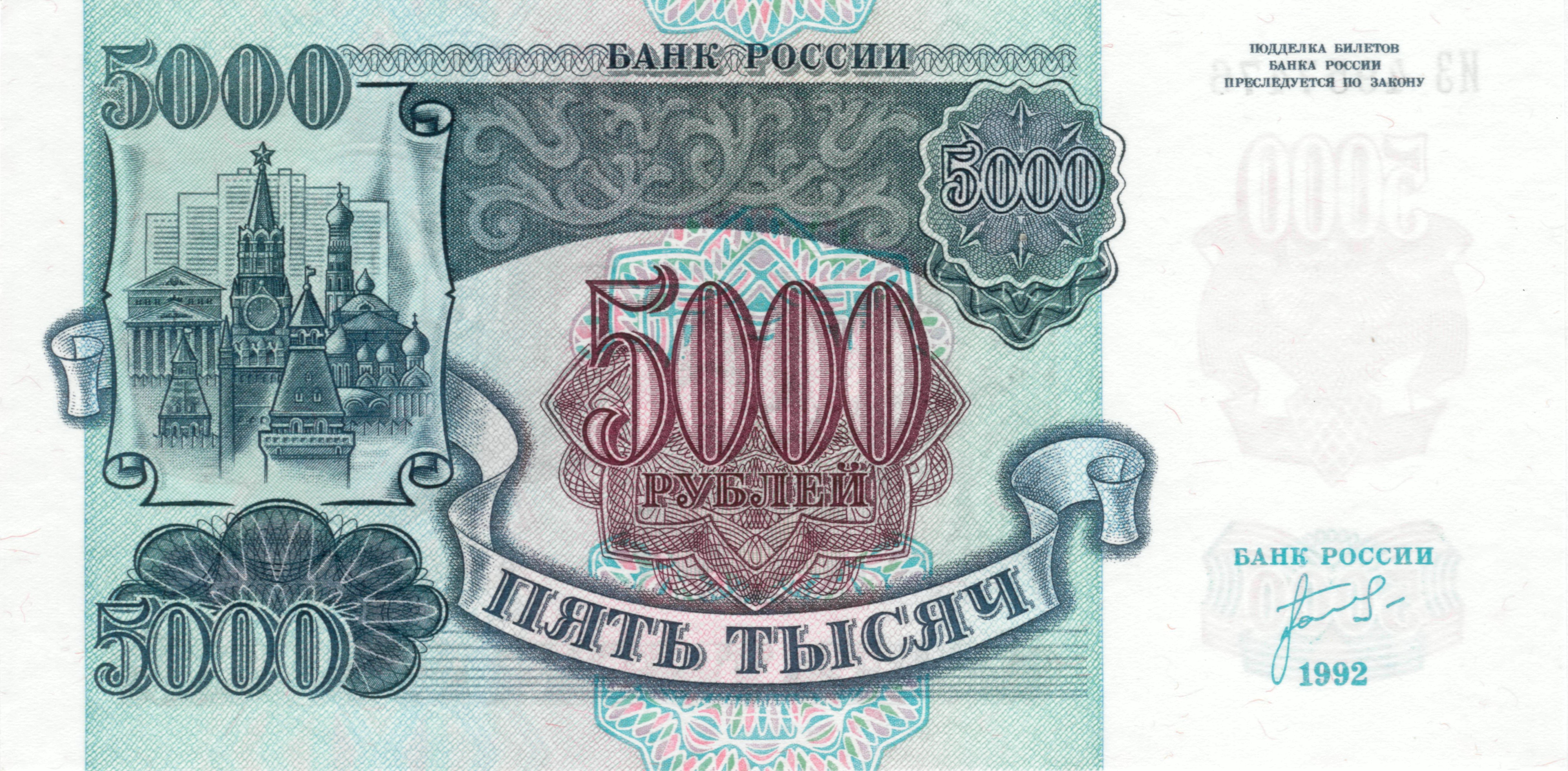 Russian banknote. 5000 rubles. Version of 1992 year. Front